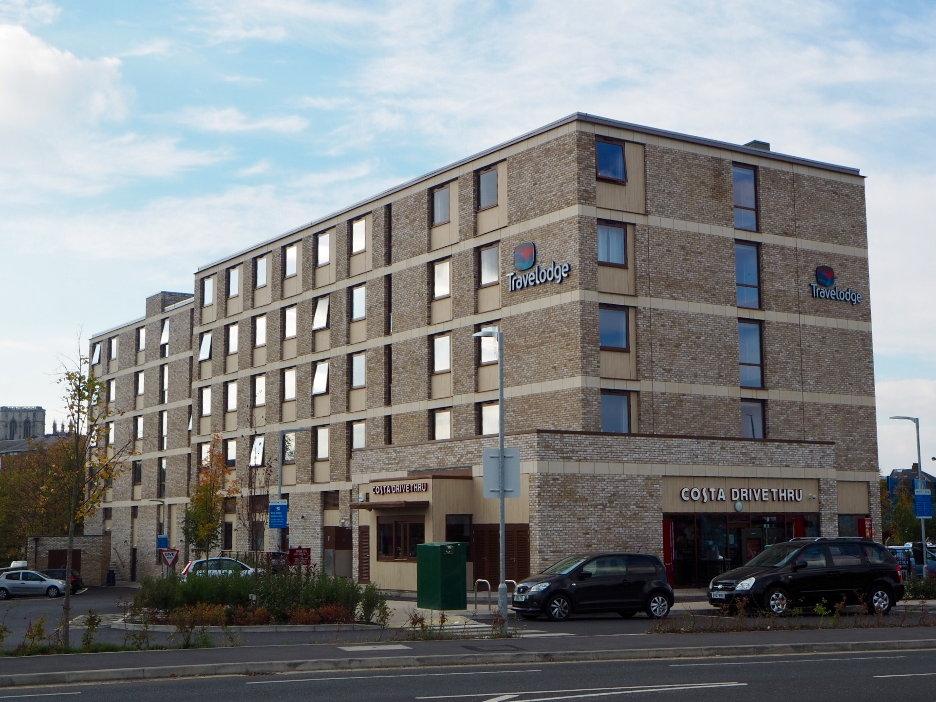 Travelodge is a budget hotel chain. This hotel is in Eboracum Way, Layerthorpe, York.